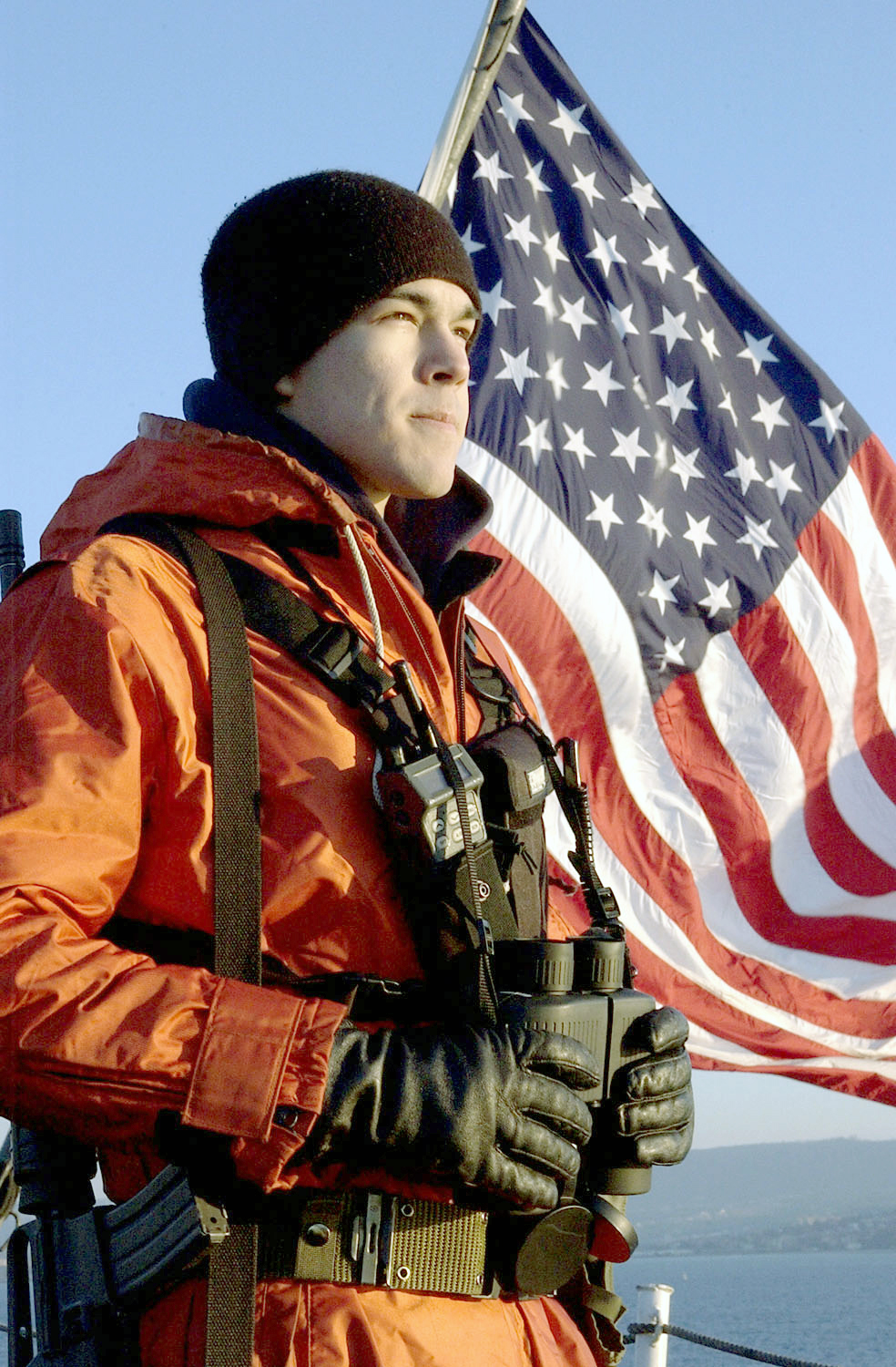 Aboard USS Harry S. Truman (CVN 75) Feb 4, 2003 -- Aviation Ordnanceman Airman Apprentice Vincent L. Carrillo stands force protection watch on the ship’s flight deck while inport Koper, Slovenia. Truman and Carrier Air Wing Three (CVW 3) are currently on a six-month deployment in support of Operation Enduring Freedom. U.S. Navy photo by Photographer's Mate Airman Ryan O'Connor. (RELEASED)